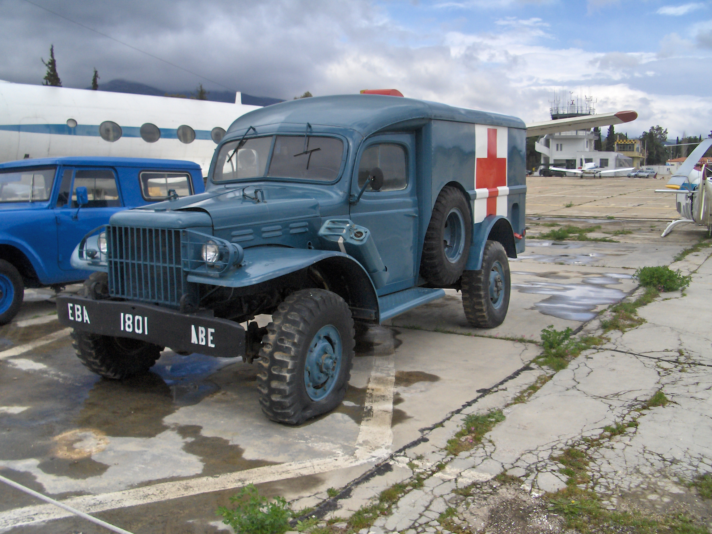 Exhibit at the Hellenic Air Force Museum at Dekelia (Tatoi), Athens, Greece. Υγειονομικό όχημα Dodge WC 54